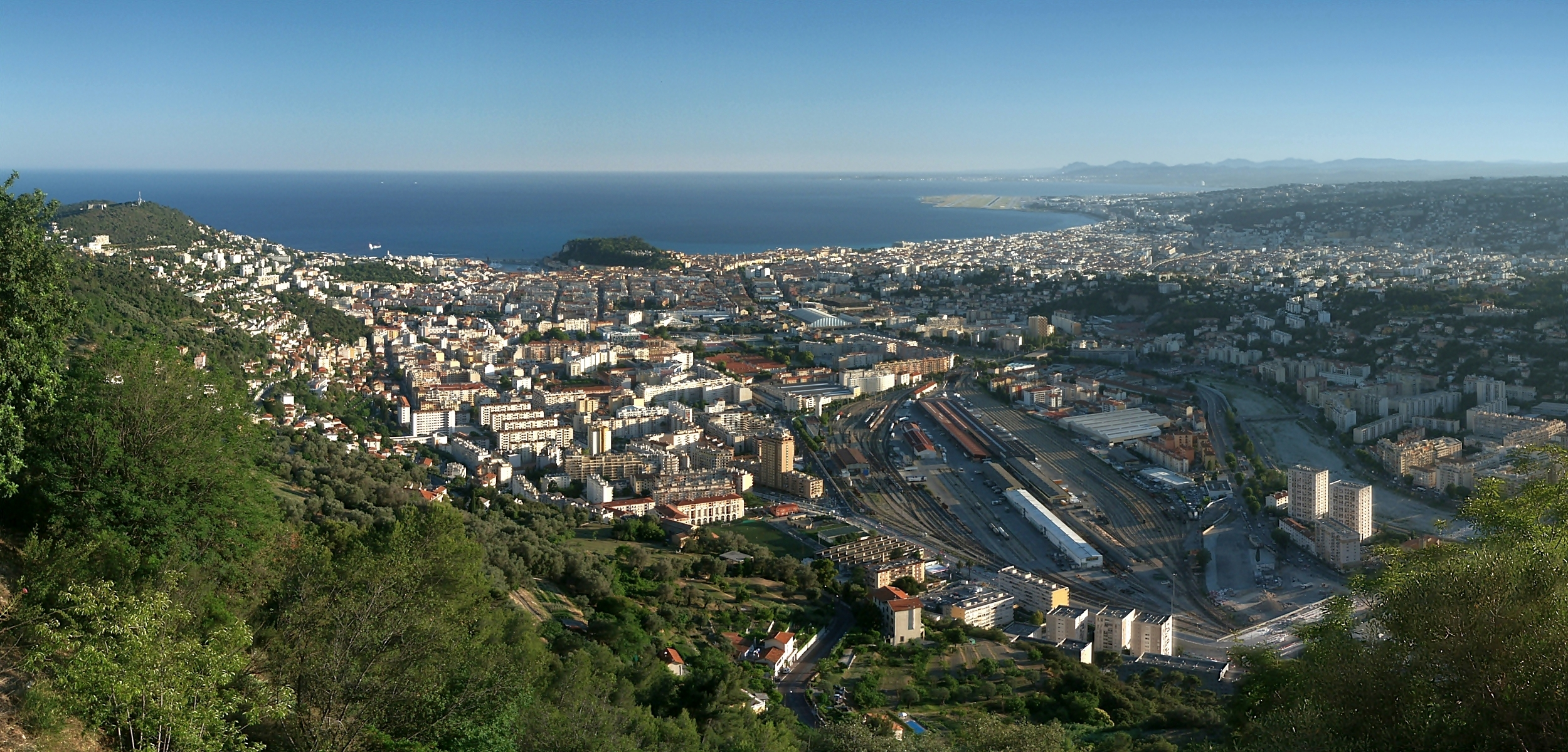 Nice from Côte d'Azur Observatory